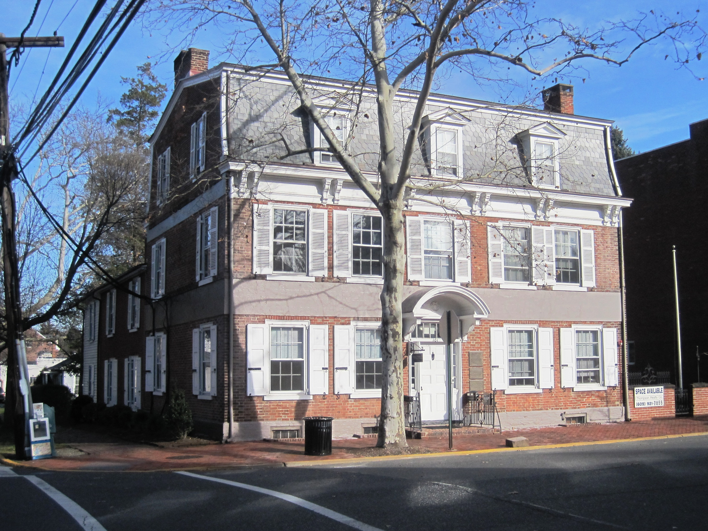 Photo showing the front of the Francis Hopkinson House in Bordentown, New Jersey. It is located at the northern terminus of County Route 545 (Farnsworth Avenue) and Park Street (CR 662).